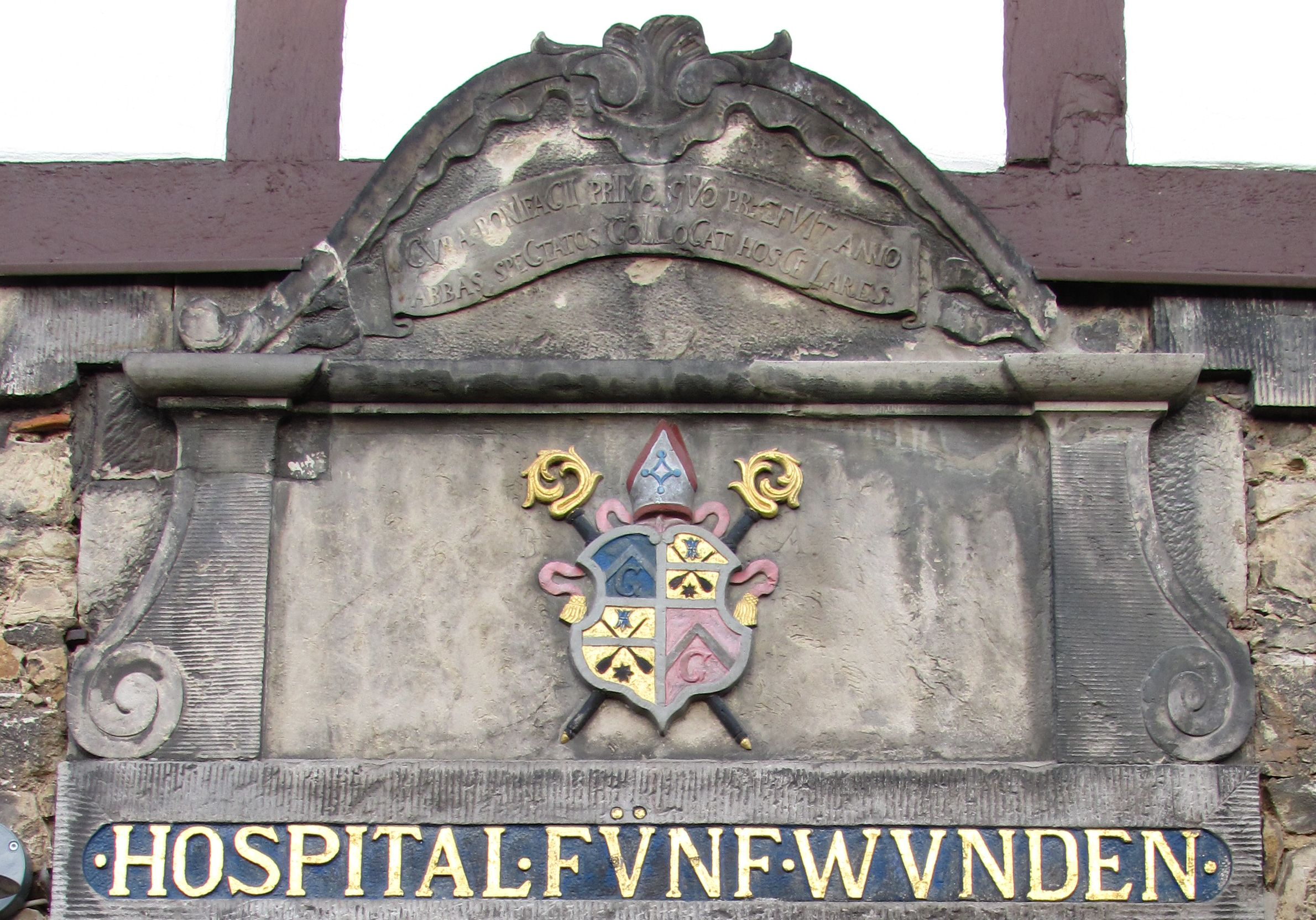 Chronogram above the entrance of the Hospital of the Five Wounds (built 1770), Hildesheim, Germany. "CVra BonIfaCII, PrIMo, QVo PraefVIt Anno Abbas SpeCtatos CoLLoCat HosCe Lares" 1770